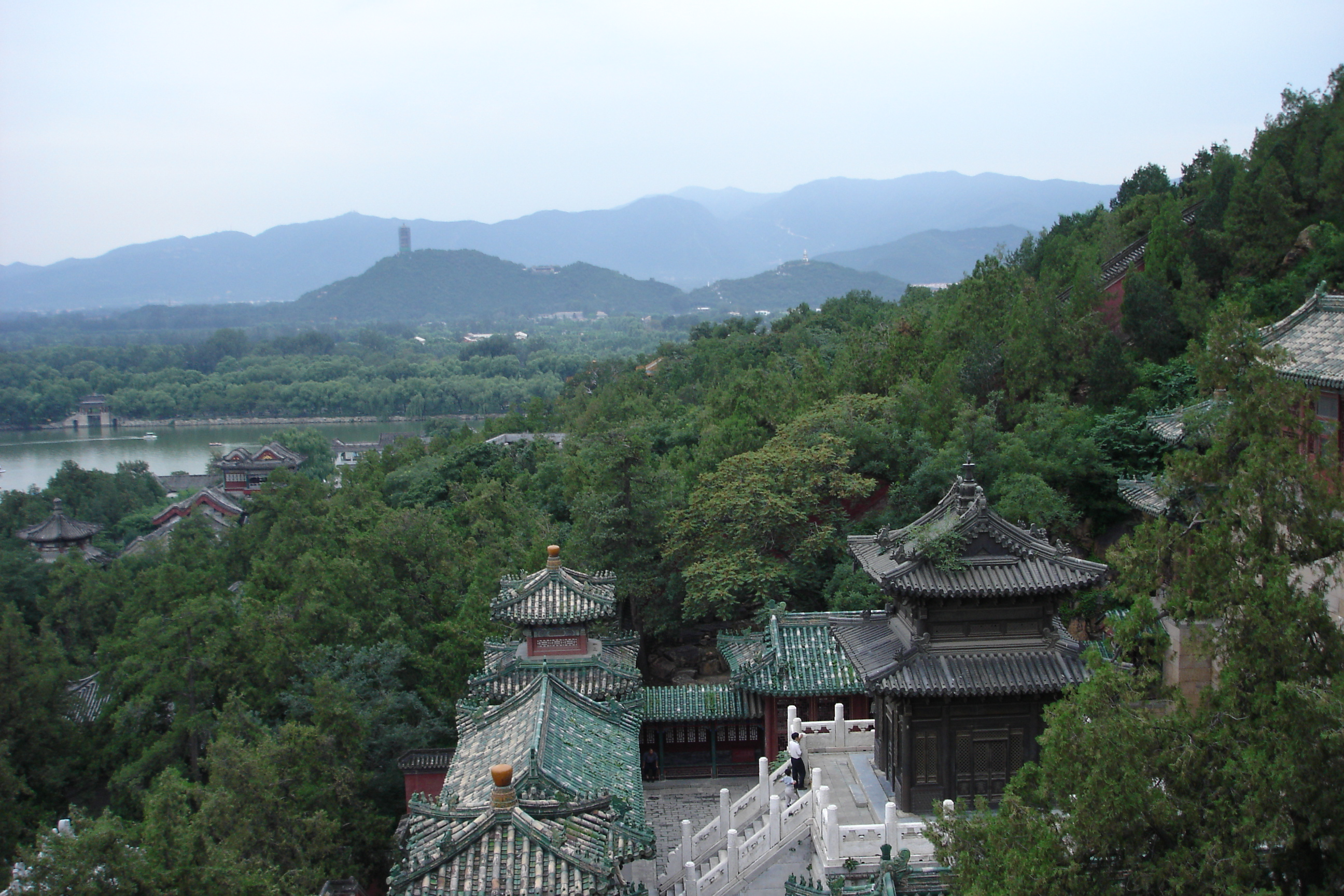 The Yiheyuan summer palace in Beijing (People's Republic of China).